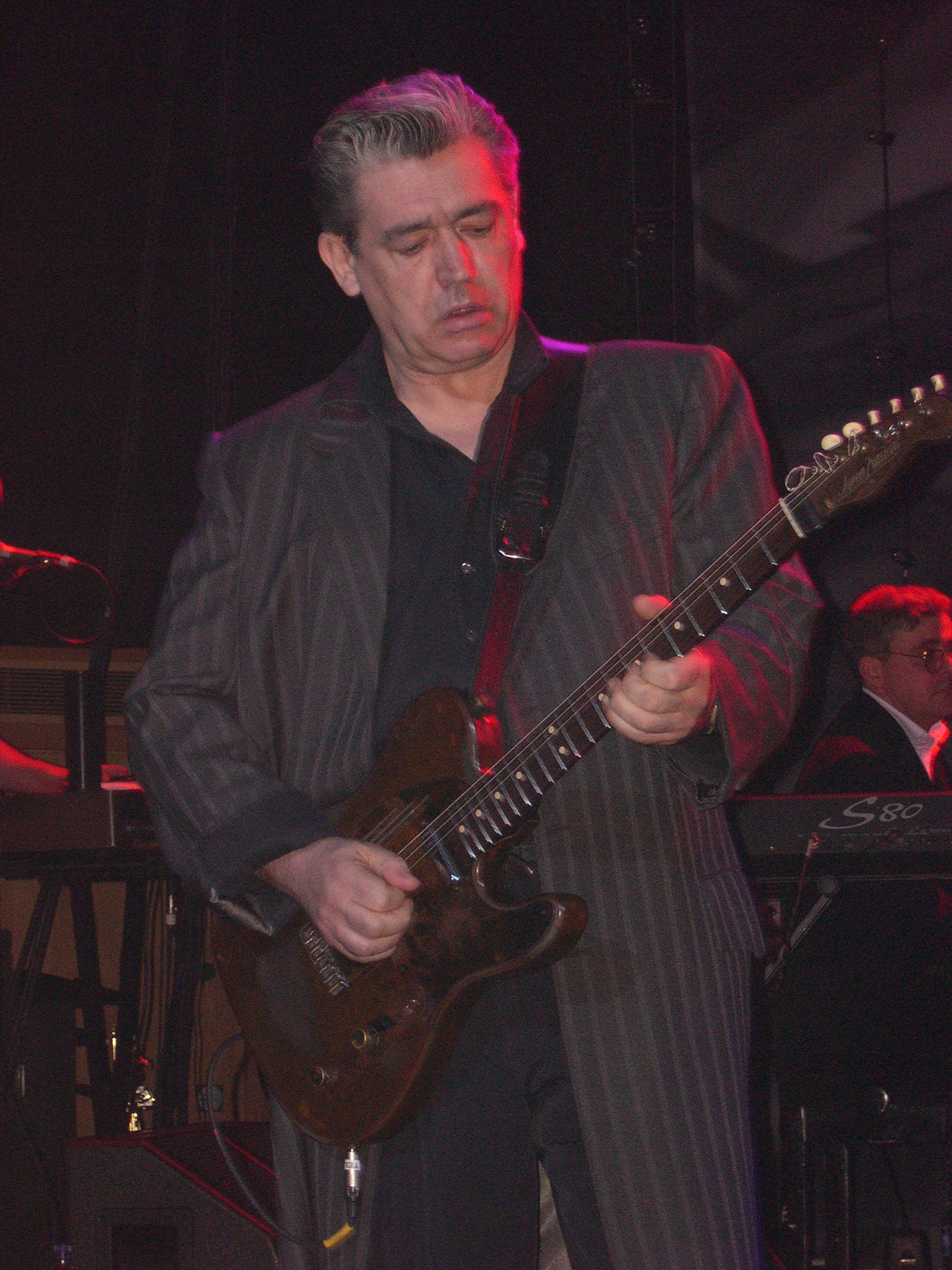 Guitarist Chris Spedding during a Bryan Ferry concert at St. David's Hall, Cardiff